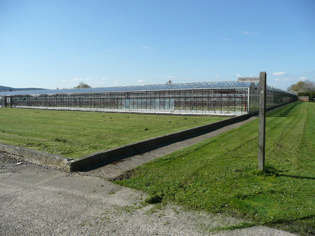 West Cranleigh Nurseries A large glasshouse complex on the Alfold Road.